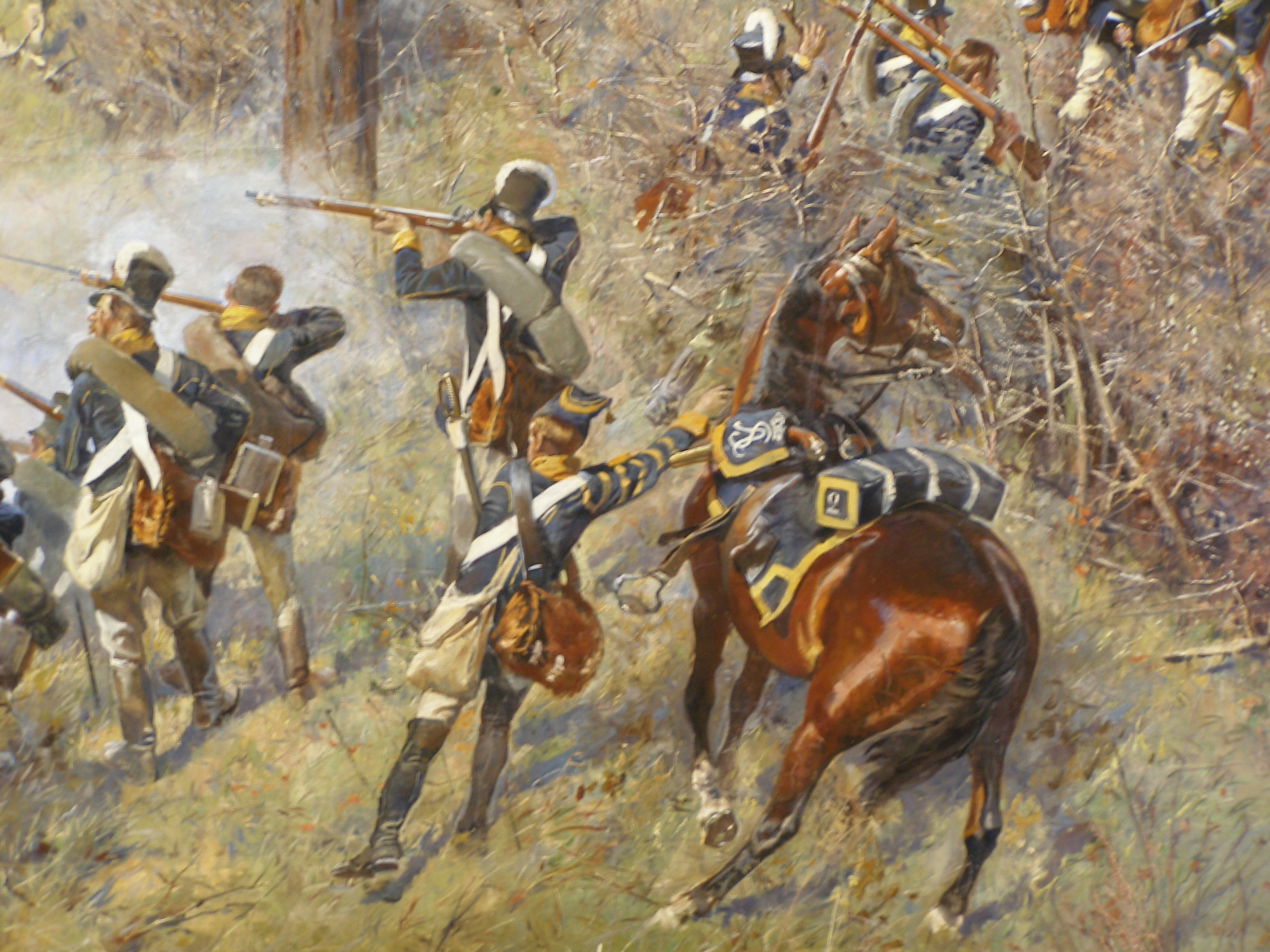 A fragment of the Racławice Panorama